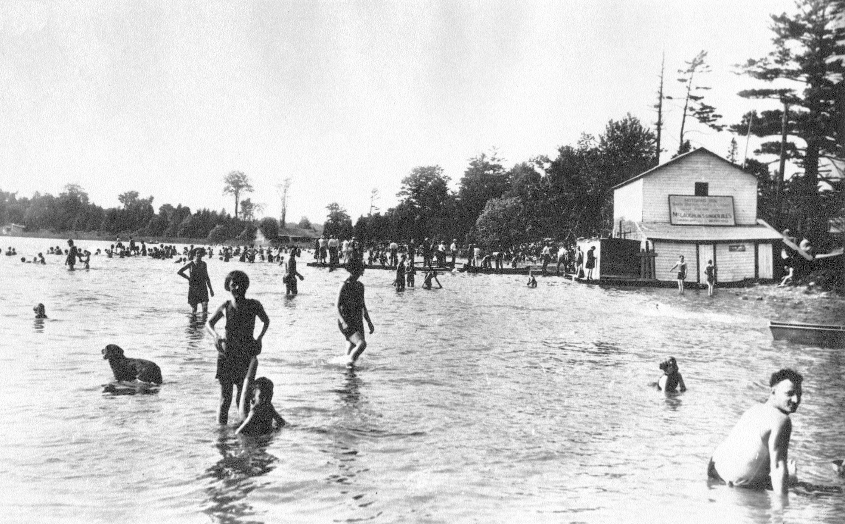 Lake Wilcox, Ontario